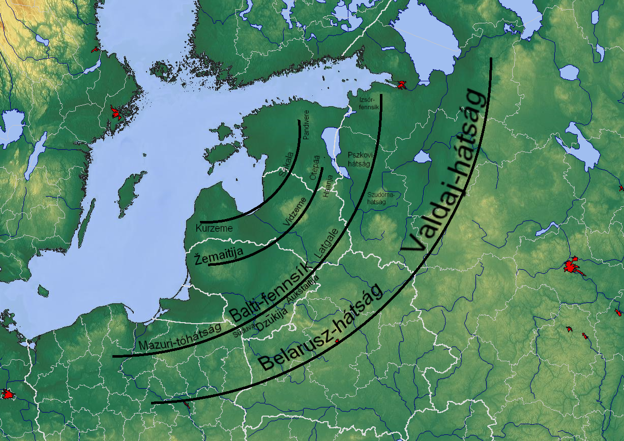 Würm moraine chains in Baltic Region